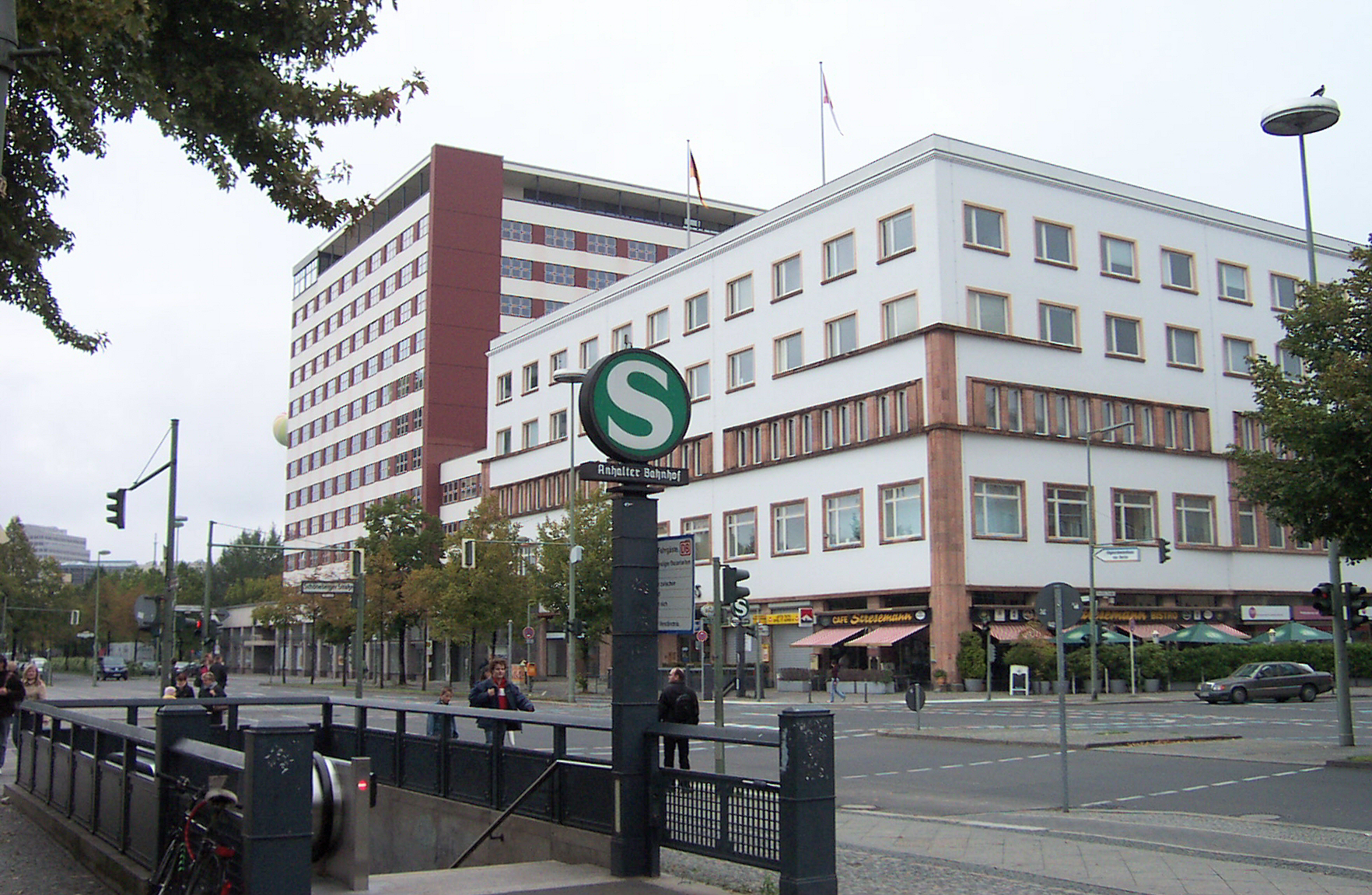 Europahaus in October 2005